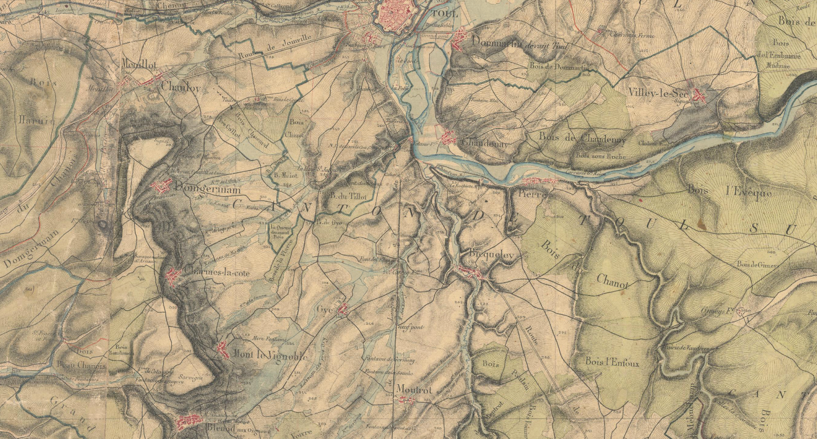 Map of Toul, France